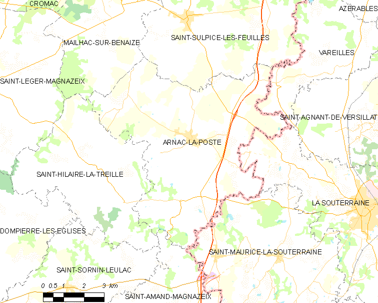 Map of French municipality Arnac-la-Poste